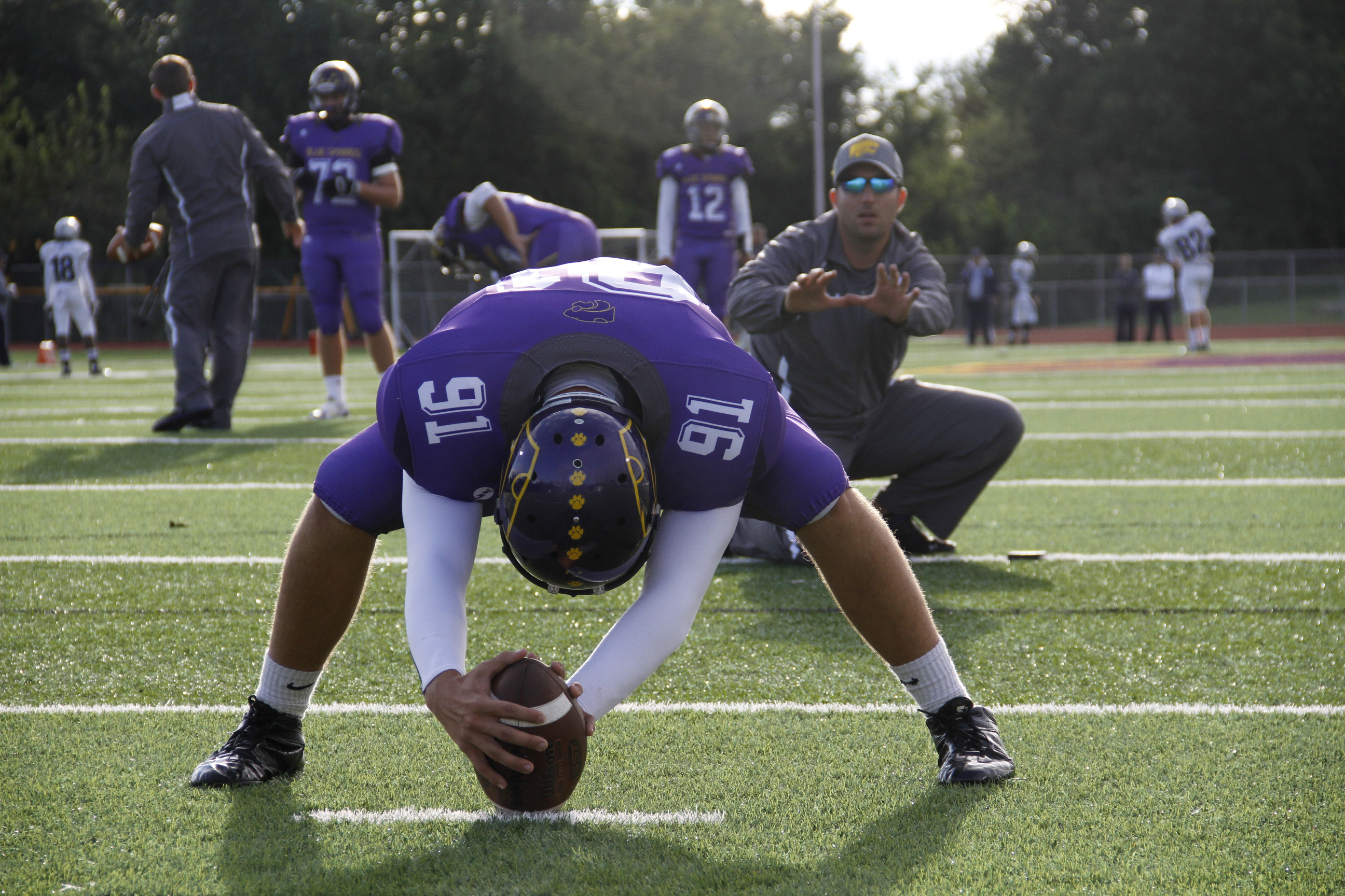 Jaycee D. Pummill, the Blue Springs High School senior long snapper and a 2015 Semper Fidelis All-American Bowl selectee, prepares to snap the ball to his position coach, Nolan Hochgrebe, during warmups before the Wildcats game against the St. Joseph Central High School Indians at Peve Stadium Sept. 12, 2014. Pummill is one of approximately 100 players selected from across the nation to participate in the Semper Fi Bowl next year at the StubHub Center in Carson, Calif., on Jan. 4, 2015, and will be aired live on Fox Sports 1 at 6 p.m. Pacific Standard Time.